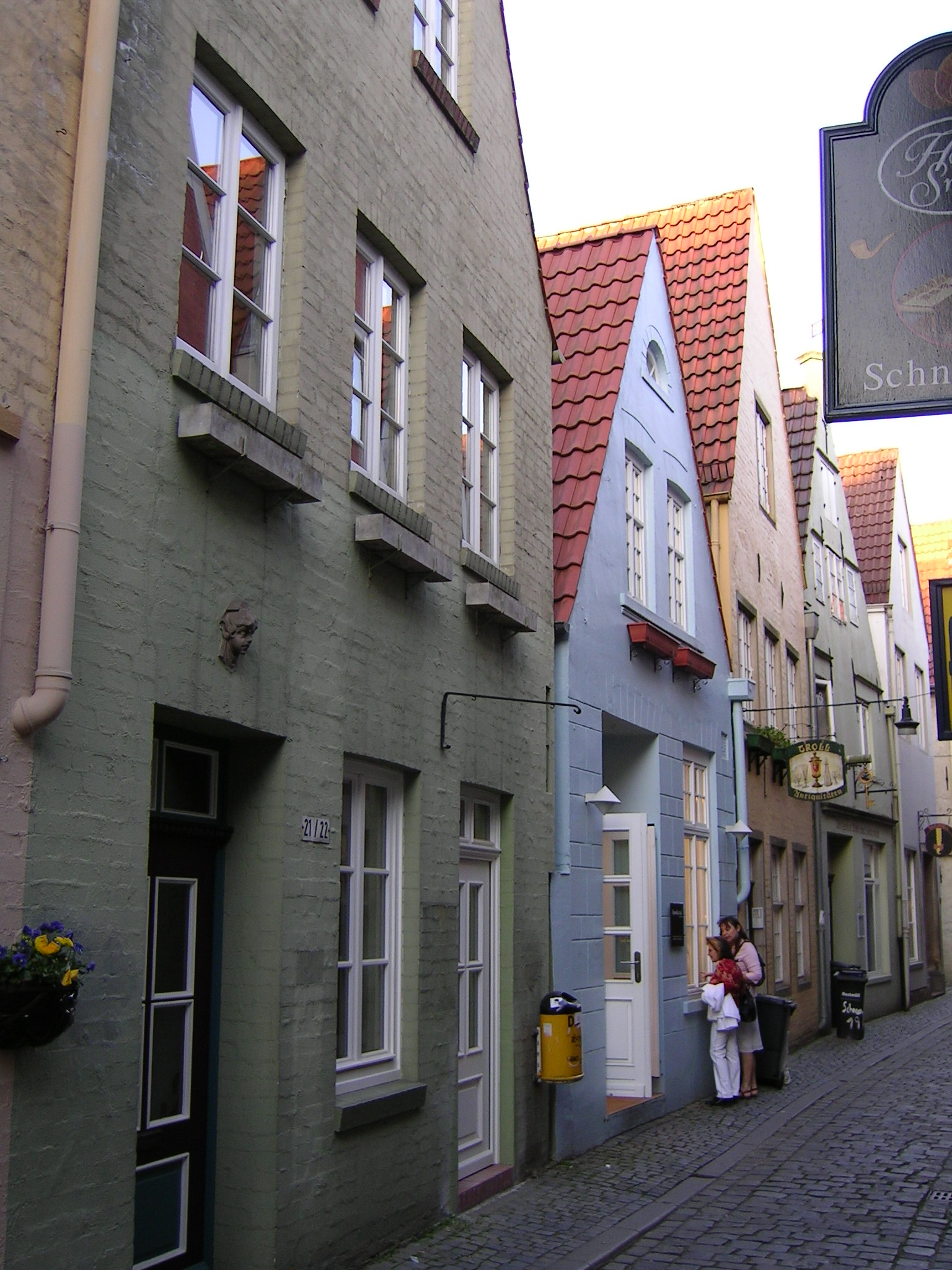 Houses from the 15th and 16th centuries along the narrow alleys in Bremen’s oldest surviving quarter